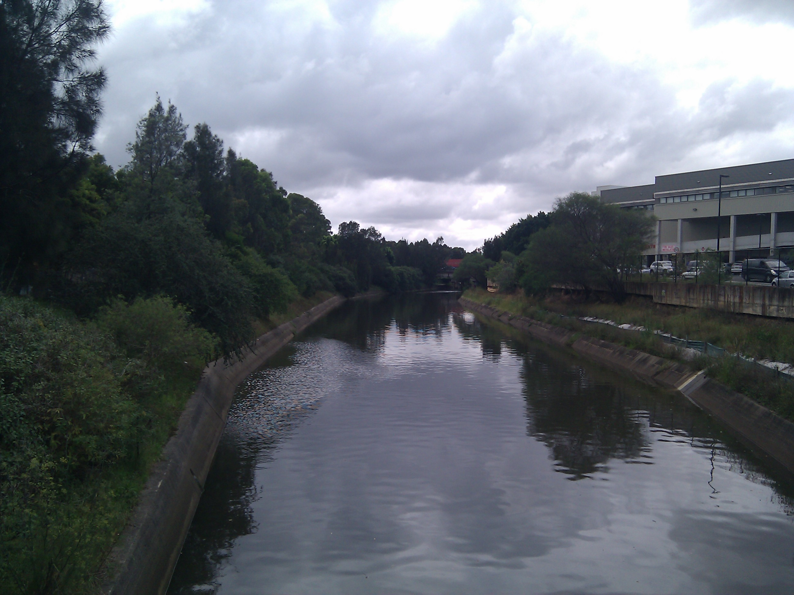 Lidcombe NSW 2141, Australia